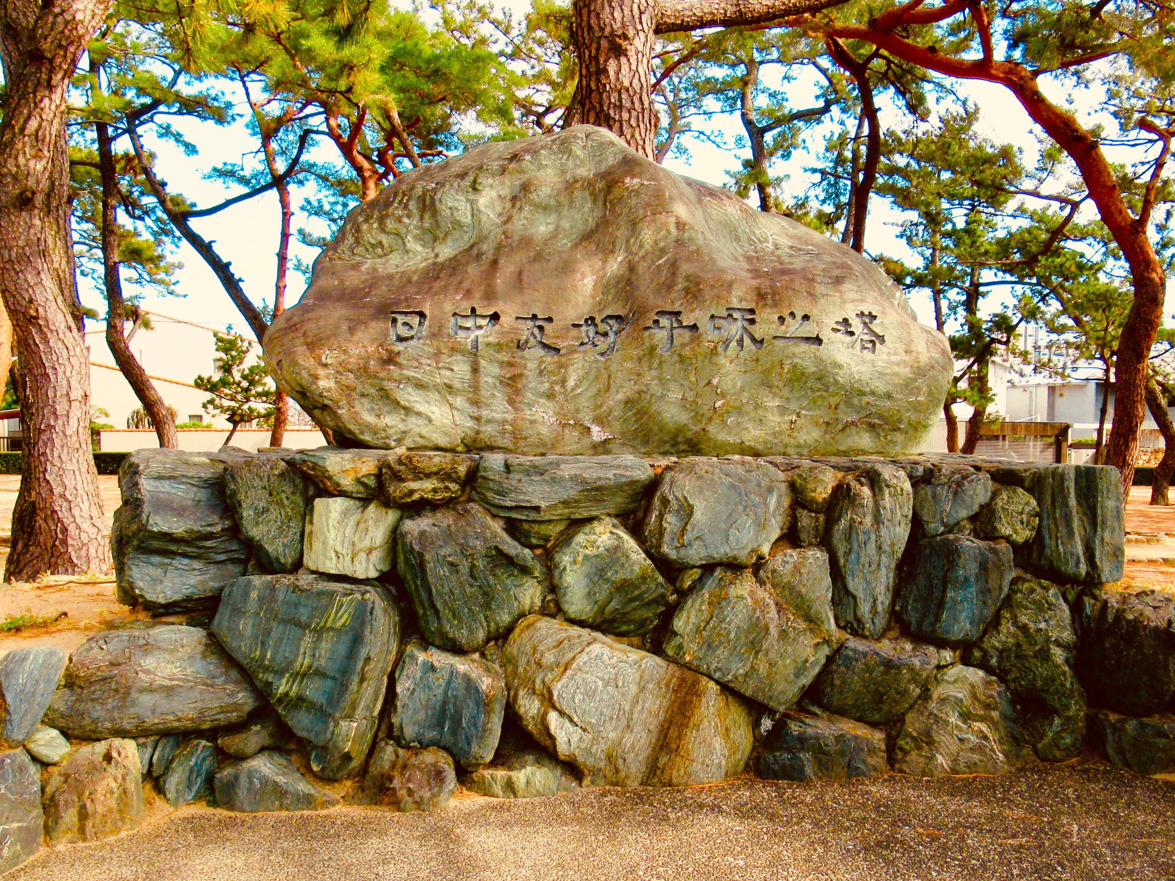 The photo has been taken in January 2019